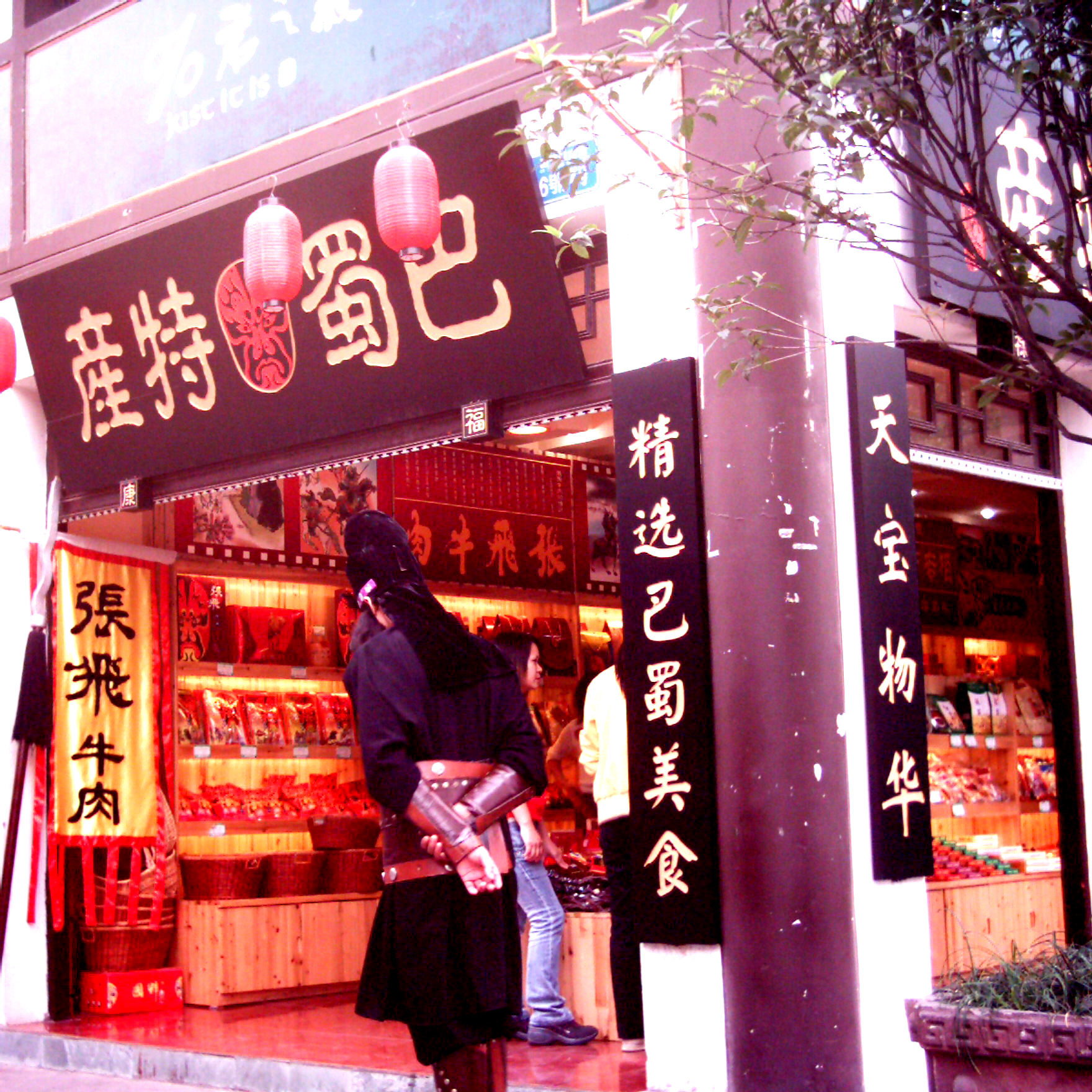 磁器口张飞牛肉 Zhang Fei Beef Jerky shop in Chongqing